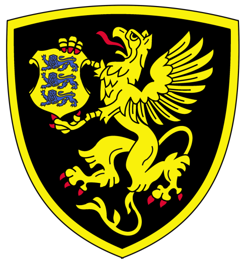 Kaitsepolitseiamet (Estonian Security Police) logo.